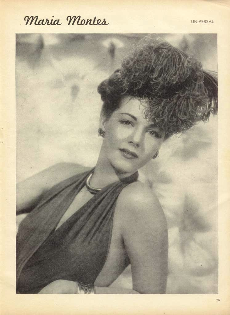 Publicity photo of Maria Montez for Argentinean Magazine. (Printed in USA)